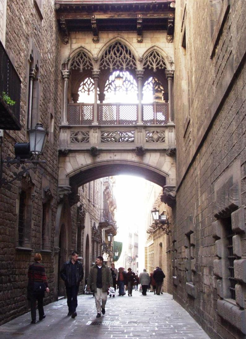 Neogothic-style bridge by architect Joan Rubió over Carrer del Bisbe (Bishop's Street) in Barcelona, linking the Palau de la Generalitat (Catalan Government Seat) with the Casa dels Canonges (residence of the President).